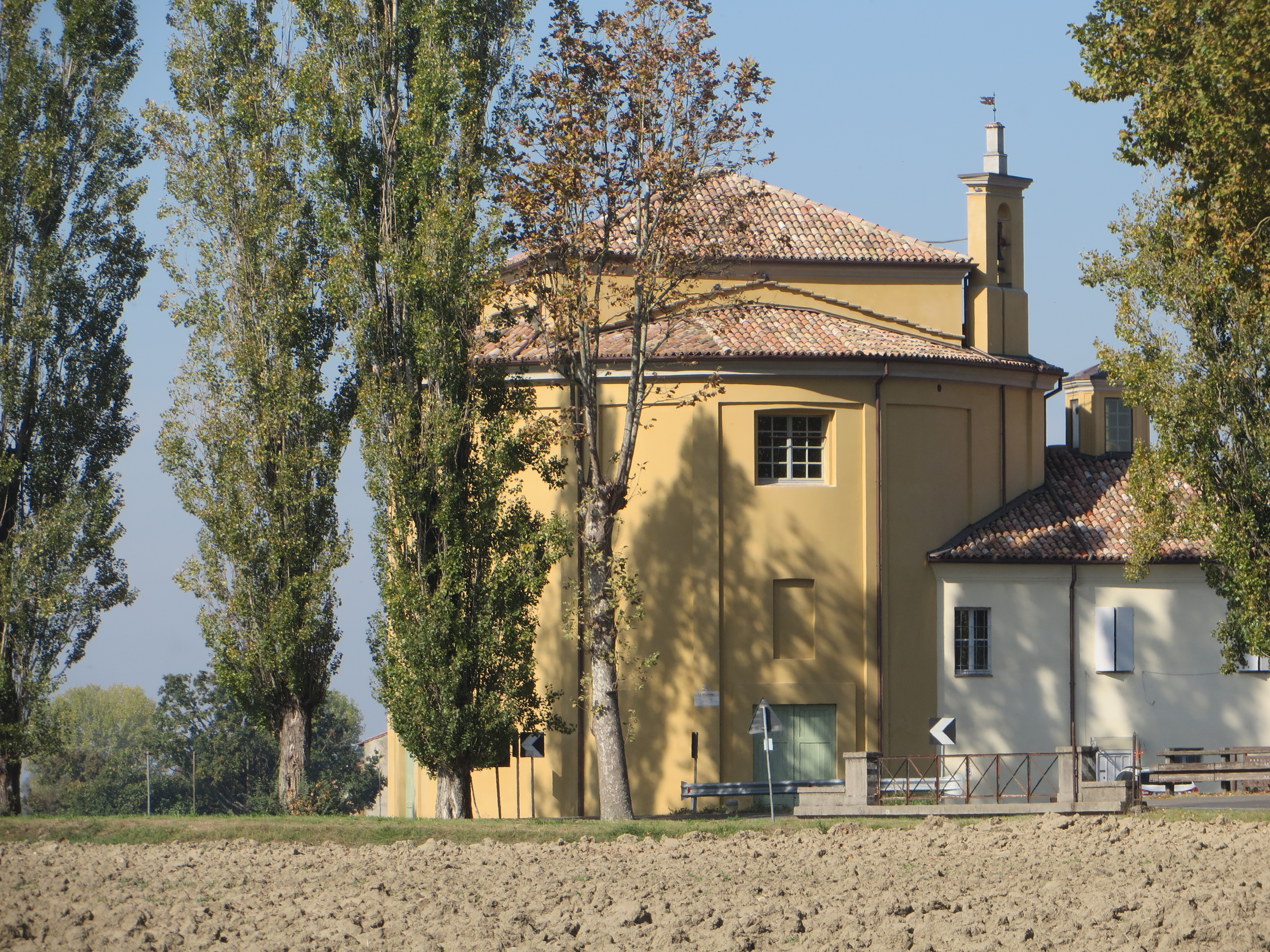 San Secondo Parmense Oratorio del Serraglio Church